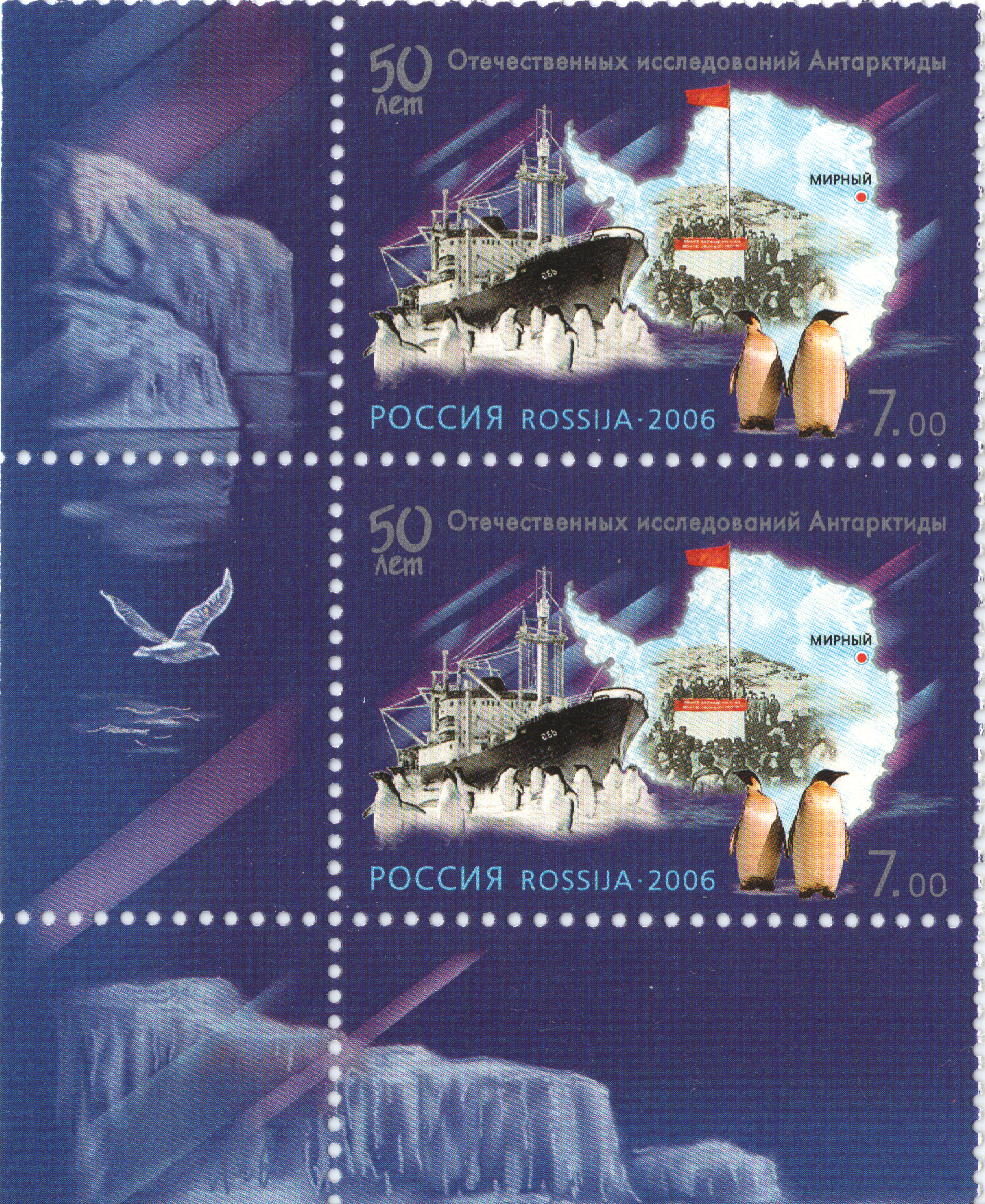 Russian postal stamp about Russian exploration of Antarctica. Cost 7 rubles.